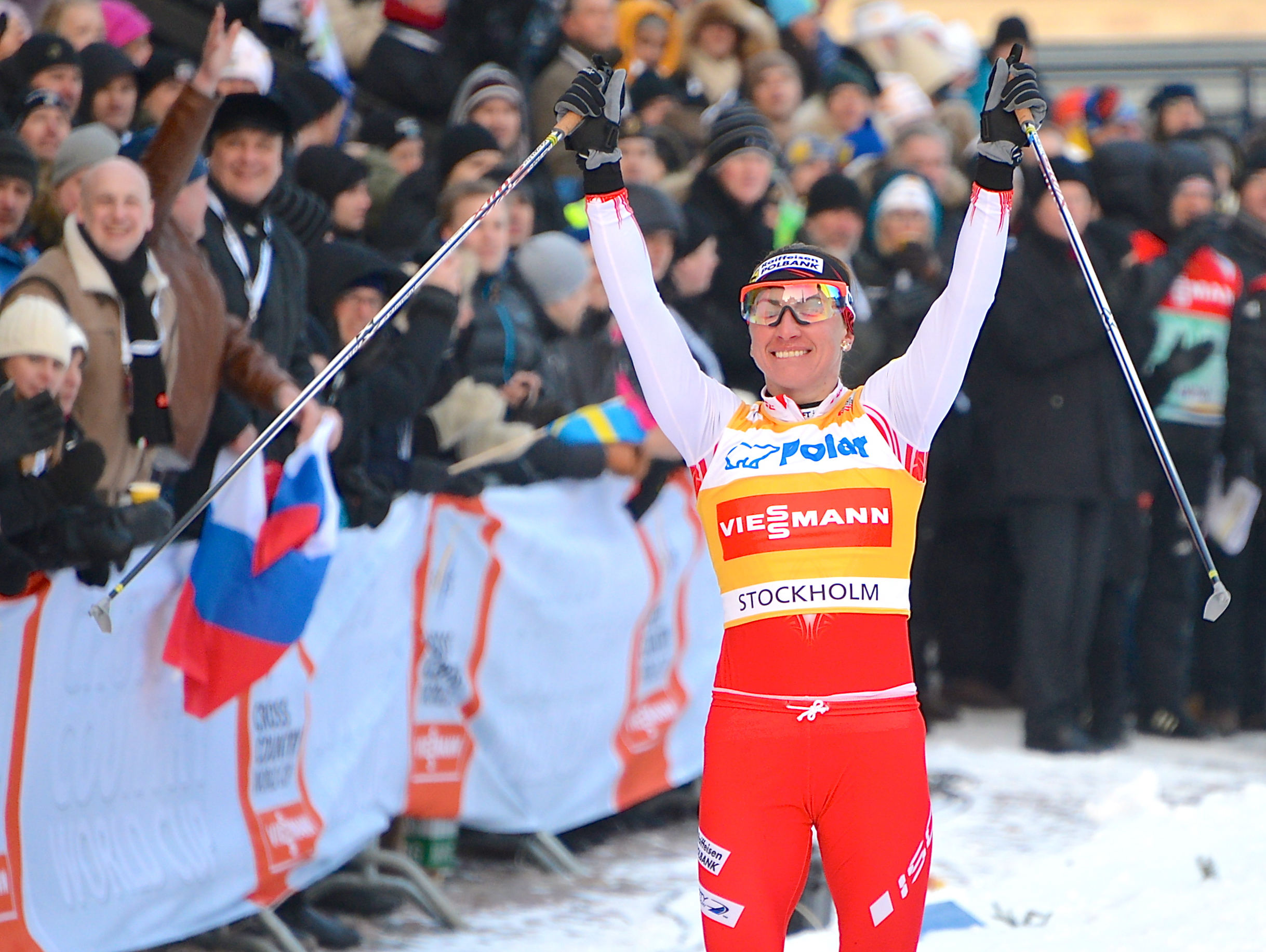 Justyna Kowalczyk at Royal Palace Sprint in Stockholm March 20, 2013